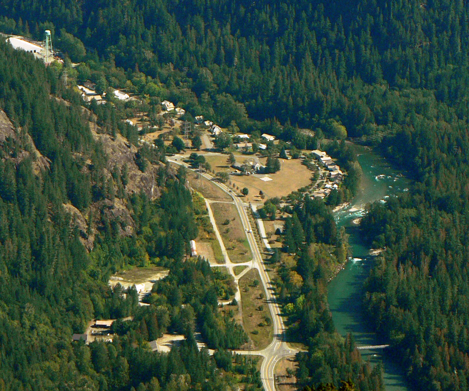 Newhalem, Washington, Skagit River Valley, Washington State Route 20